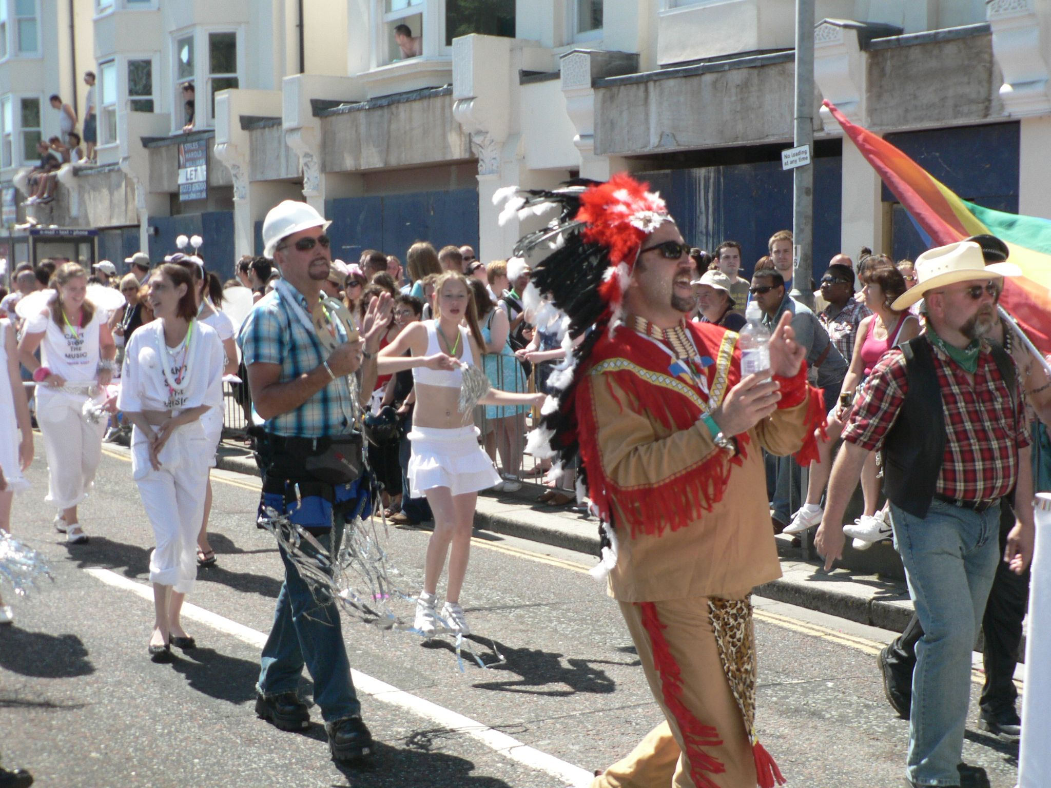 Brighton Pride 2007, Men in Village People style